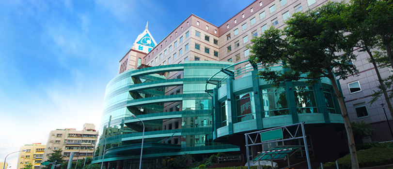 Delta Electronics headquarters in Neihu District, Taipei City.